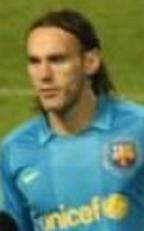 Detail of Image:FC Barcelona 2007 cropped.jpg, which was uploaded by User:Chantrybee on 29 September 2007. Formació inicial UD Levante – FC Barcelona 29/9/2007, Gabriel Milito